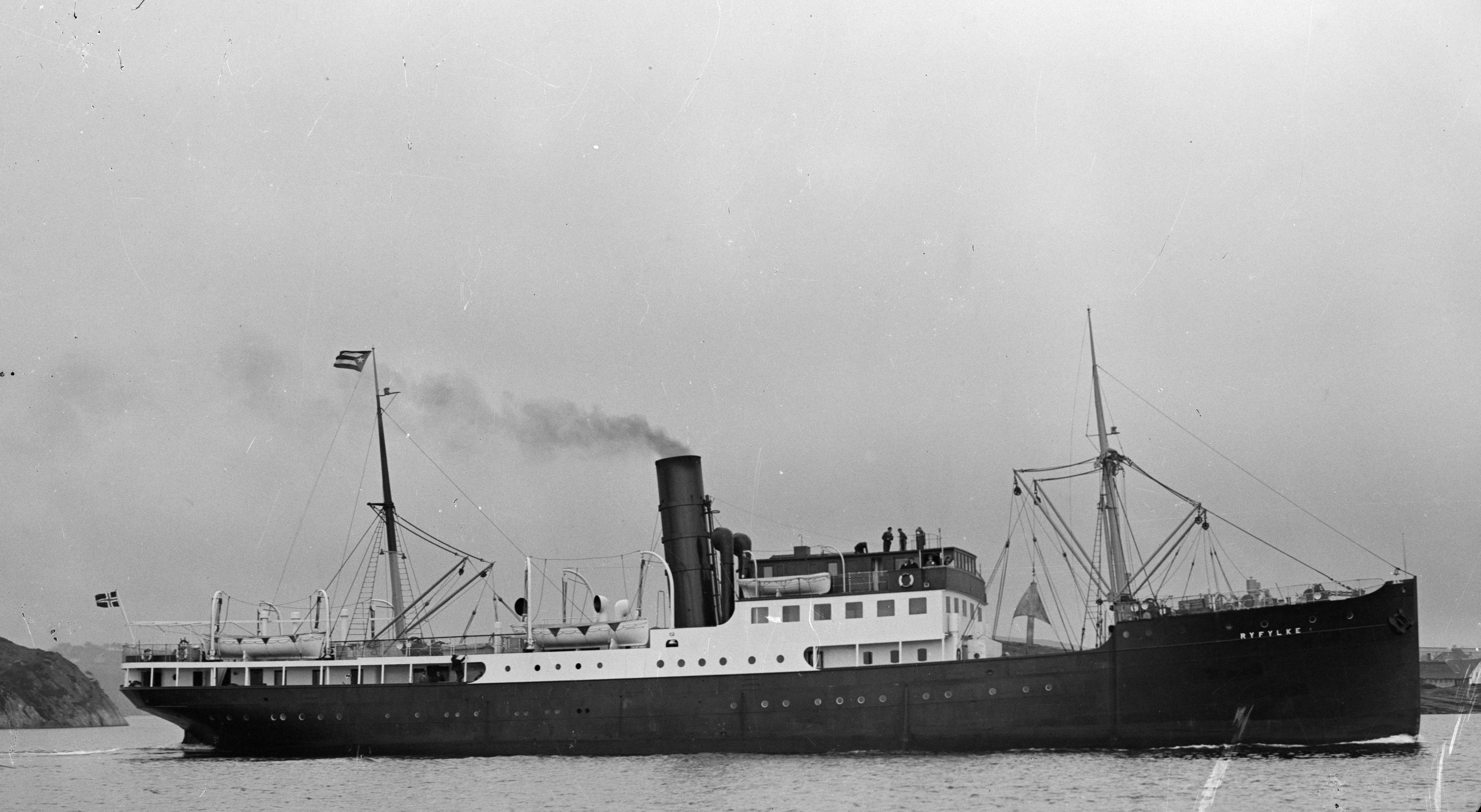 Norwegian steamship Ryfylke built in 1917 as St Croix.